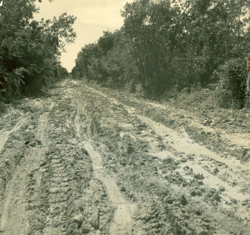 Photograph of the Old Ingraham Highway (re:Florida State Road 9336) in the Everglades, showing its boggy condition (Date unknown).